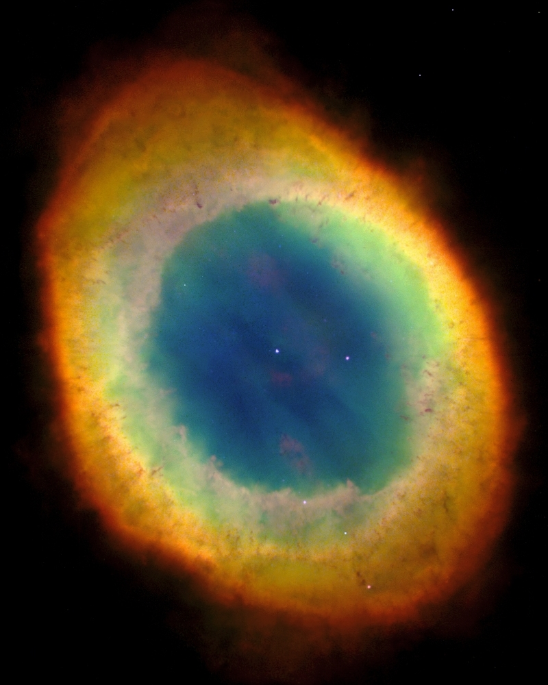 The planetary nebula Messier 57, also known as the Ring Nebula, in the constellation Lyra (NGC 6720, GC 4447).